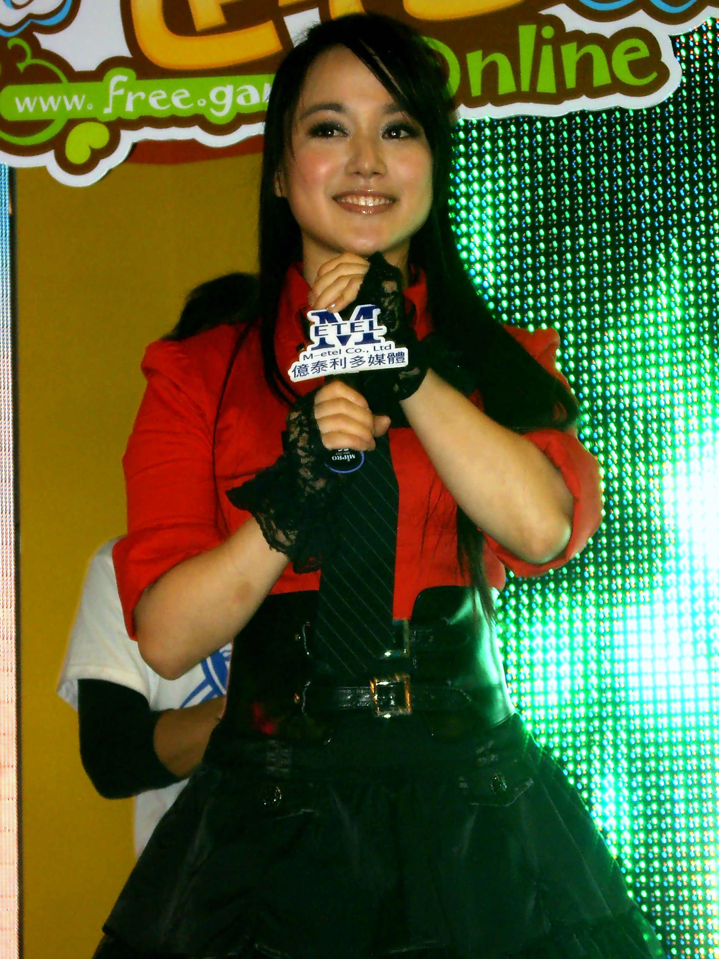 2008 Taipei Game Show: Ivy Hsu at M-Etel booth.